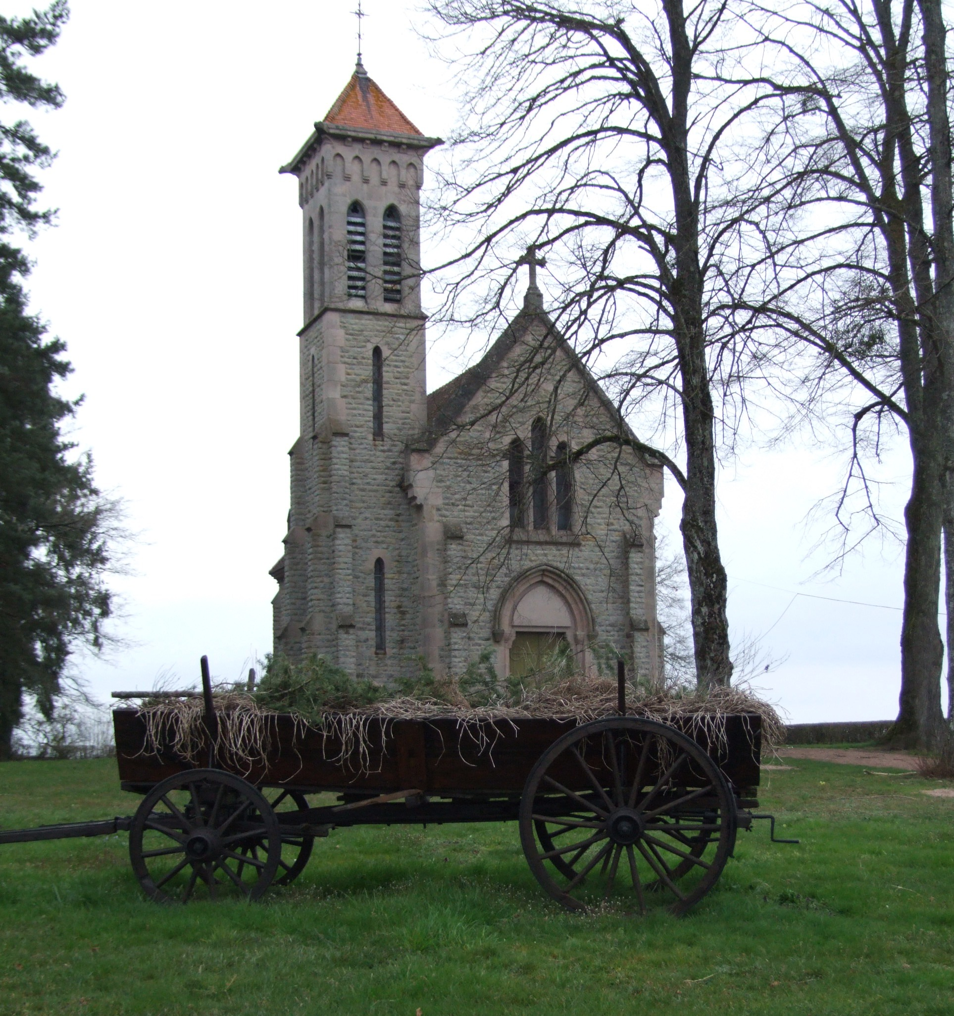 Burgundy, FRANCE